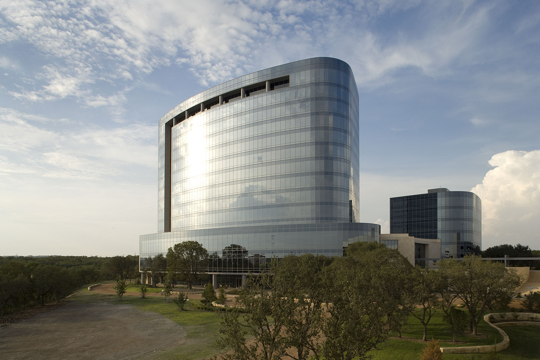 The new Tesoro Corporation headquarters in San Antonio, Texas, USA was designed by architect Marshall Strabala, Director of Design of Gensler. Tesoro's employees moved into the new corporate campus in July 2009. The building is LEED Certified (Silver) by the US Green Building Council. Strabala is a LEED certified architect.